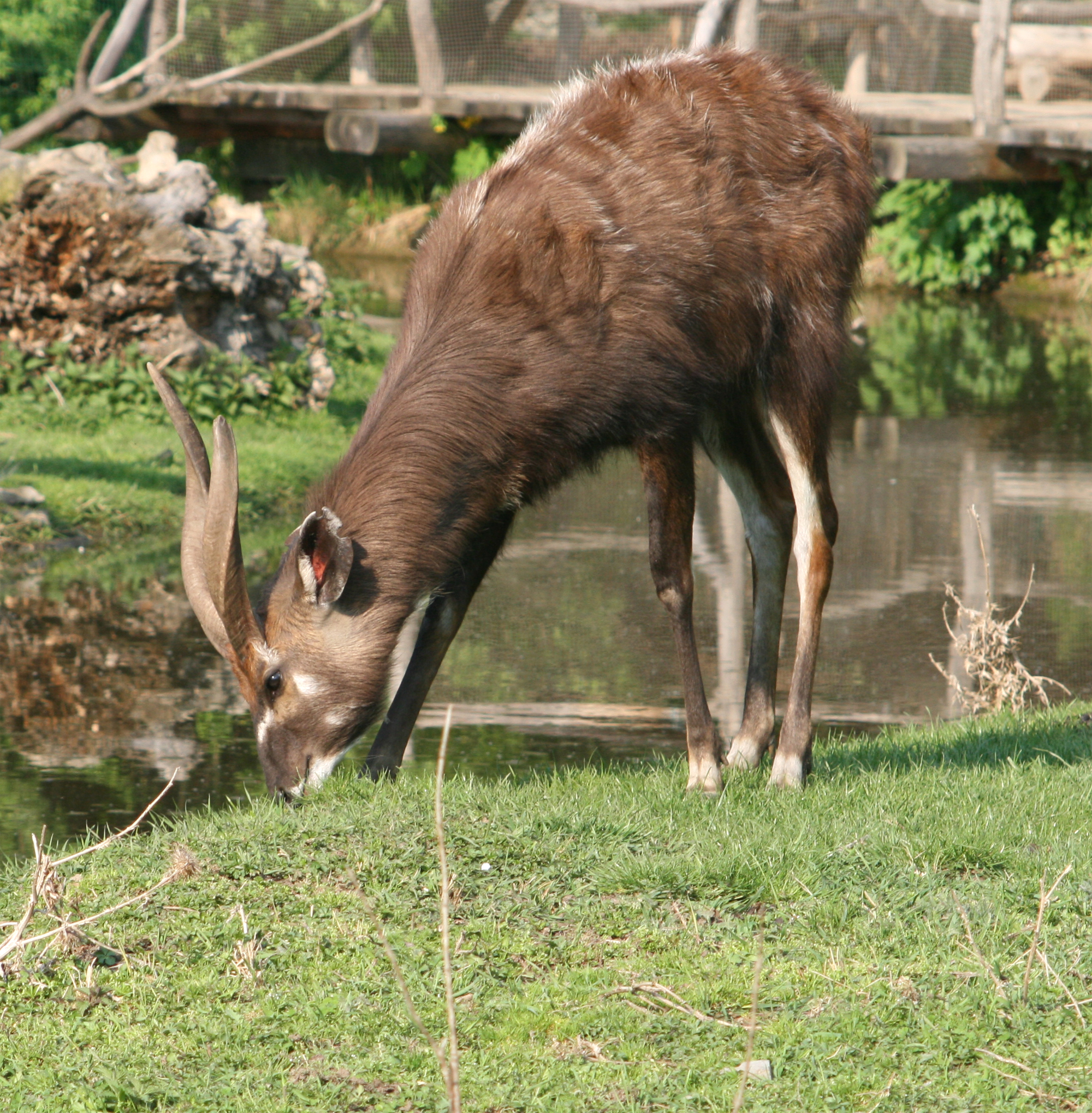 Sitatunga, Tragelaphus spekeii in ZOO Praha, Czech Republic